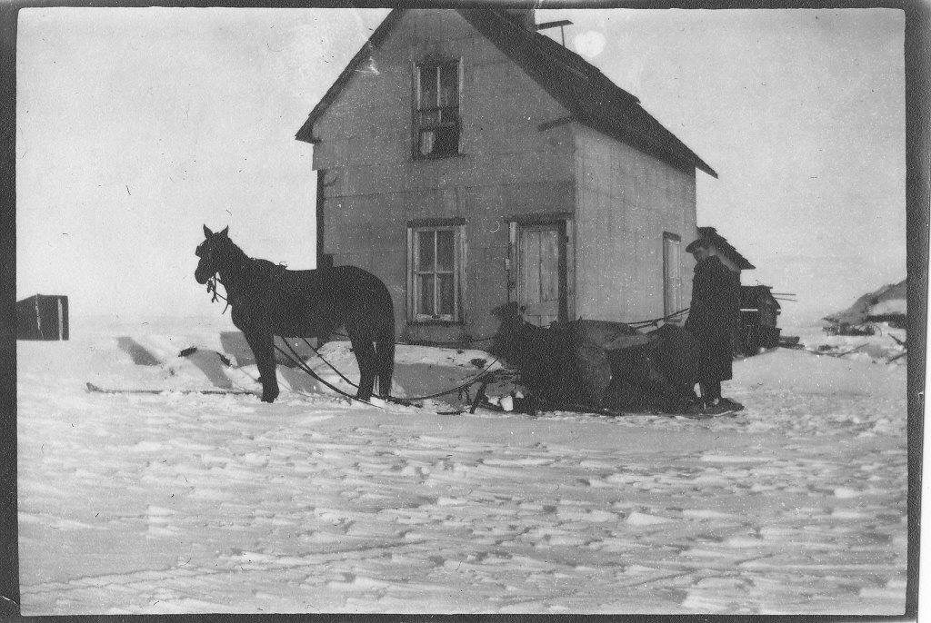 Porterfield Robinson house after lean-to part--post office--moved into new site 4 miles north